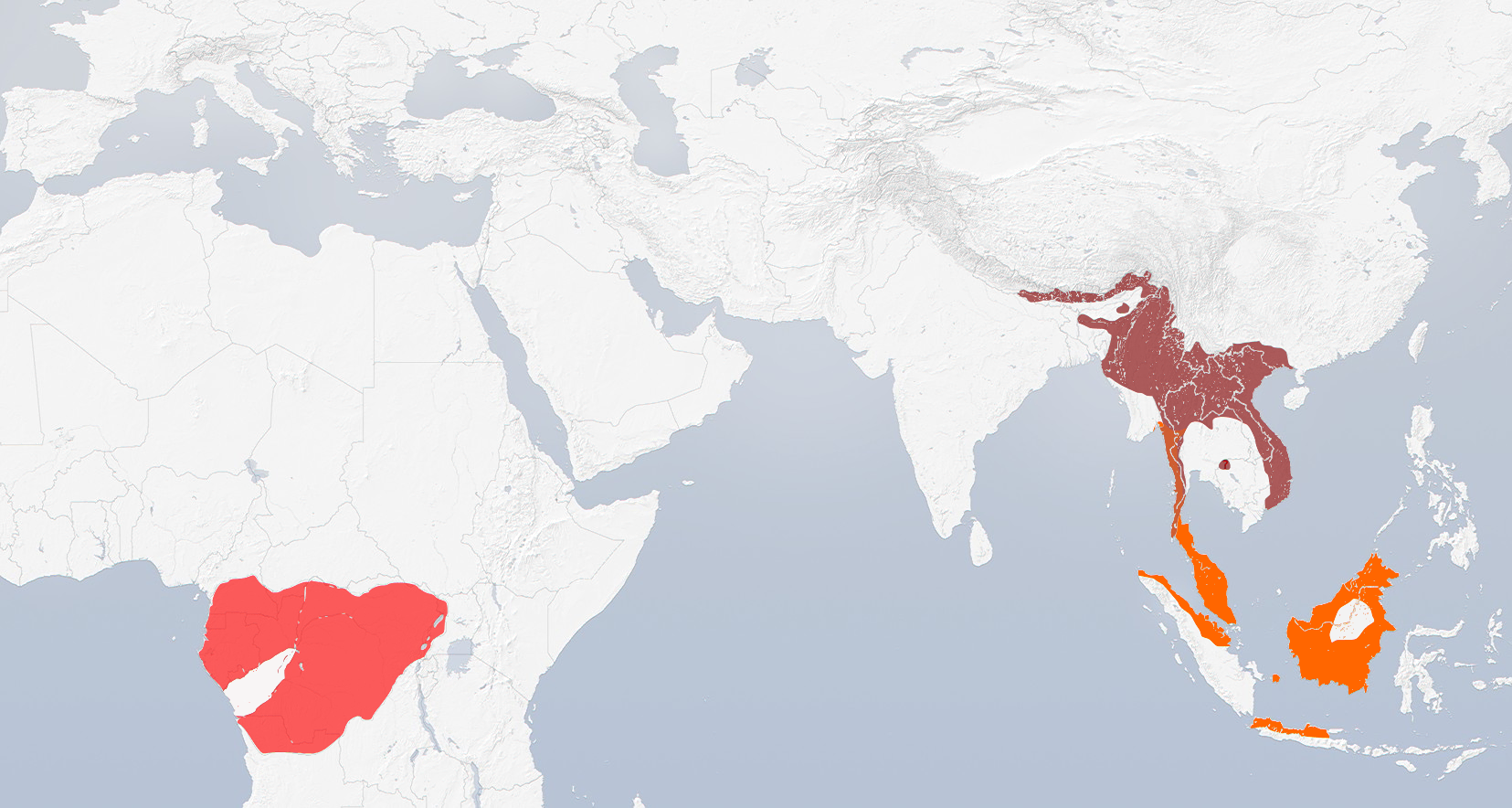 Distribution of Genus Sasia